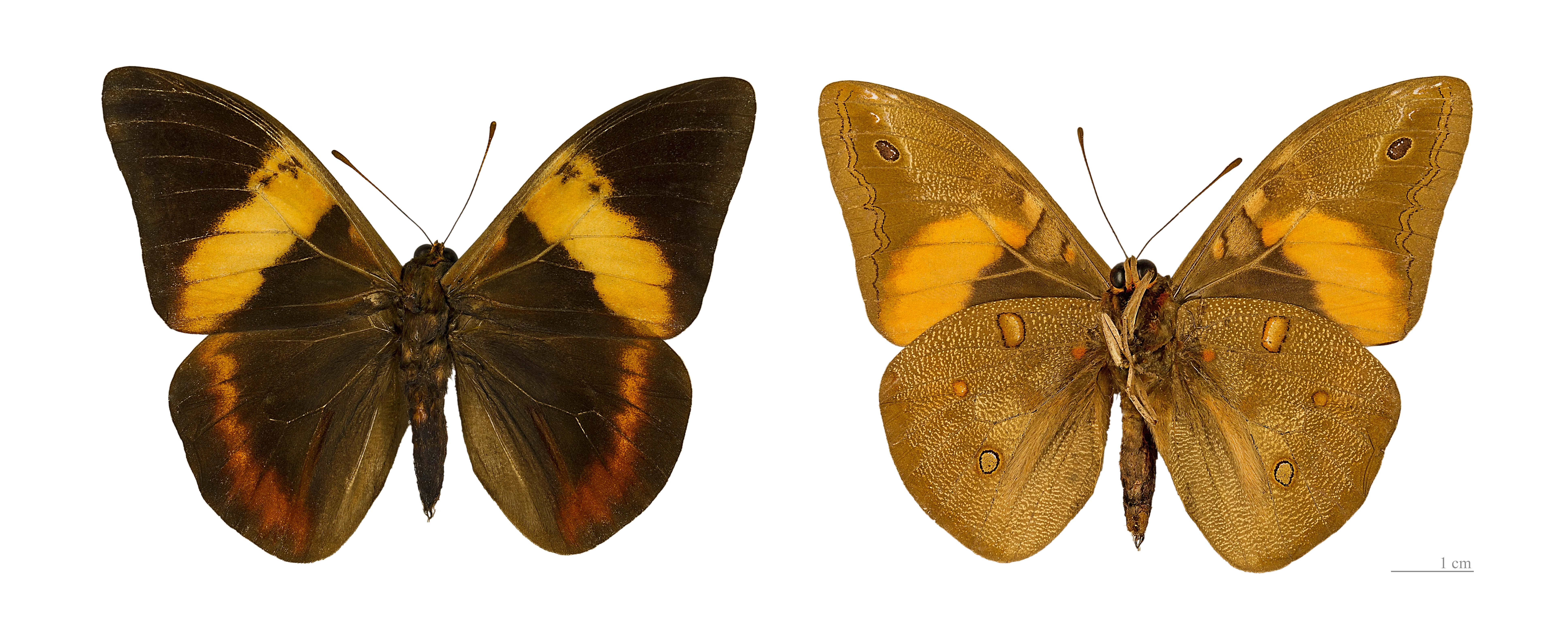 Brassolis sophorae - Two views of same specimen